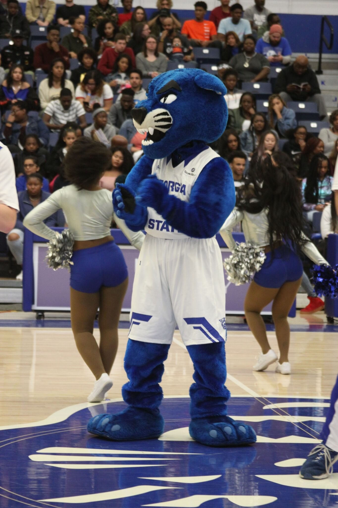 An updated picture of the Georgia State University mascot.